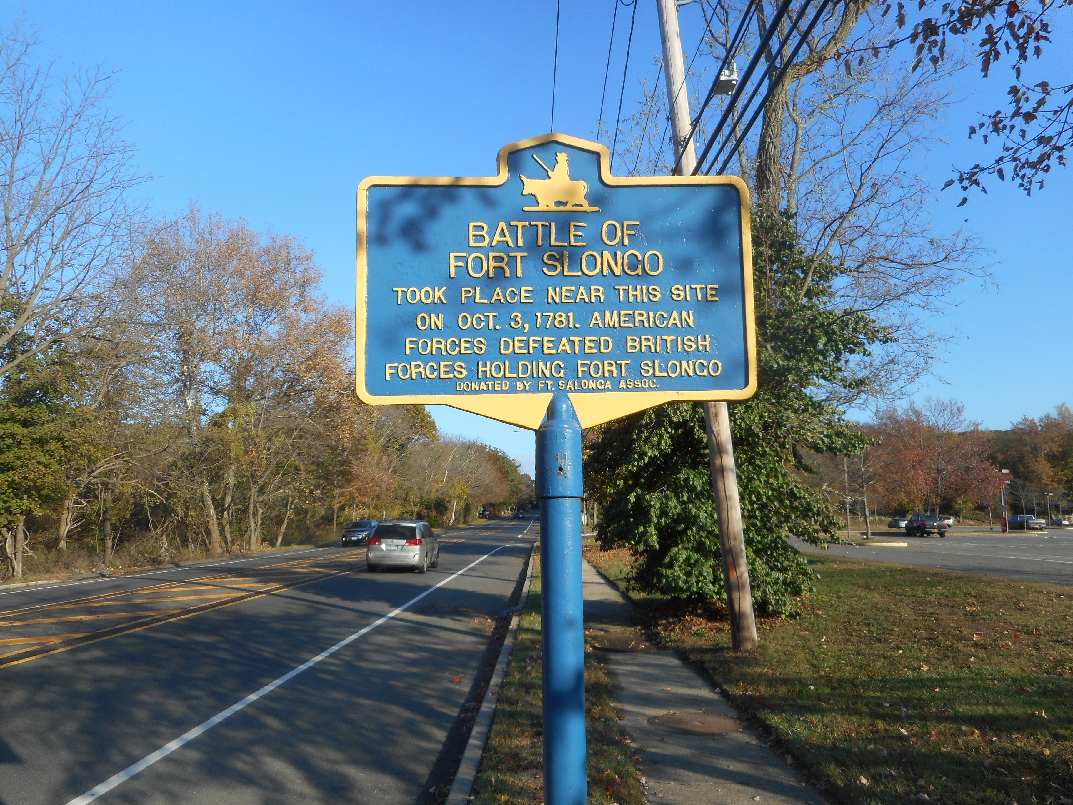 Historic Marker for the "Battle of Fort Slongo," along eastbound New York State Route 25A on the Town of Smithtown side of Fort Salonga, New York.